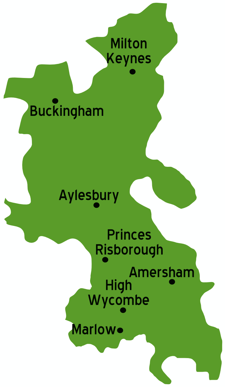 Map of Buckinghamshire, United Kingdom.